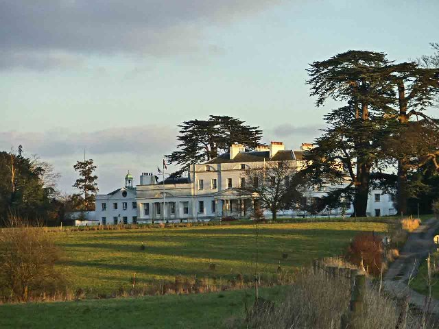 Bayfordbury Hall, near Hertford, Hertfordshire. Bayfordbury Hall is now used as a College